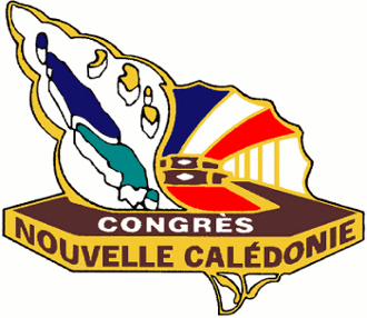 Official flag of New Caledonia's Congress